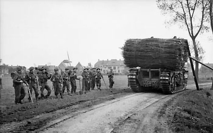 IWM caption : Churchill AVRE fascine carrier passed infantry during the attack towards Hertogenbosch in Holland